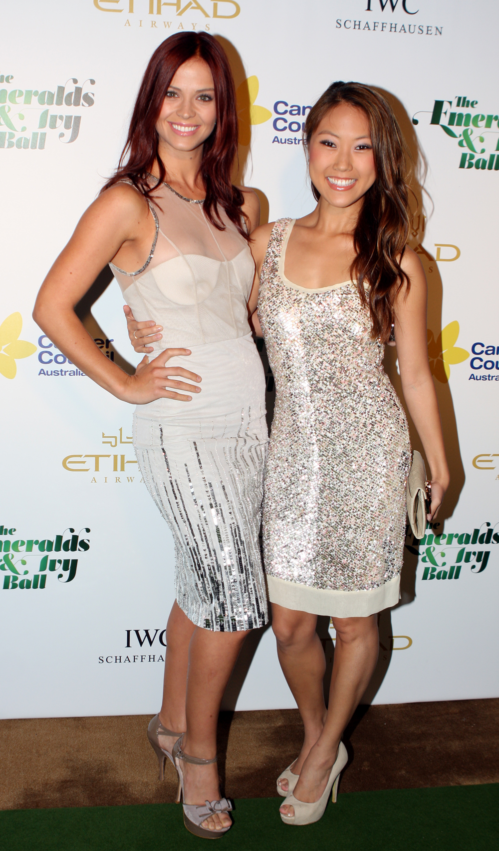 RONAN KEATING'S EMERALDS AND IVY BALL On Friday November 16, Ronan Keating and Cancer Council Australia will stage the Inaugural Emeralds and Ivy in Sydney at The Ivy Ballroom in Sydney. The glamorous black tie gala event will be hosted by Ronan Keating and The Morning Show's Kylie Gillies, and features a guest list that boasts a host of actors and entertainers, as well as fans and supporters of Cancer Council Australia. Guests will enjoy a spectacular three-course dinner in the stunning and intimate Ivy Ballroom and will be entertained by X Factor finalists, Vogue Williams and Ronan Keating. Funds raised through ticket sales and auction items on the night will go to the Cancer Council's Ronan Keating Fellowship.